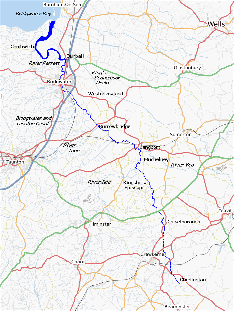 Map of the River Parrett, in Somerset, England. This map may be incomplete, and may contain errors. Don't rely solely on it for navigation.